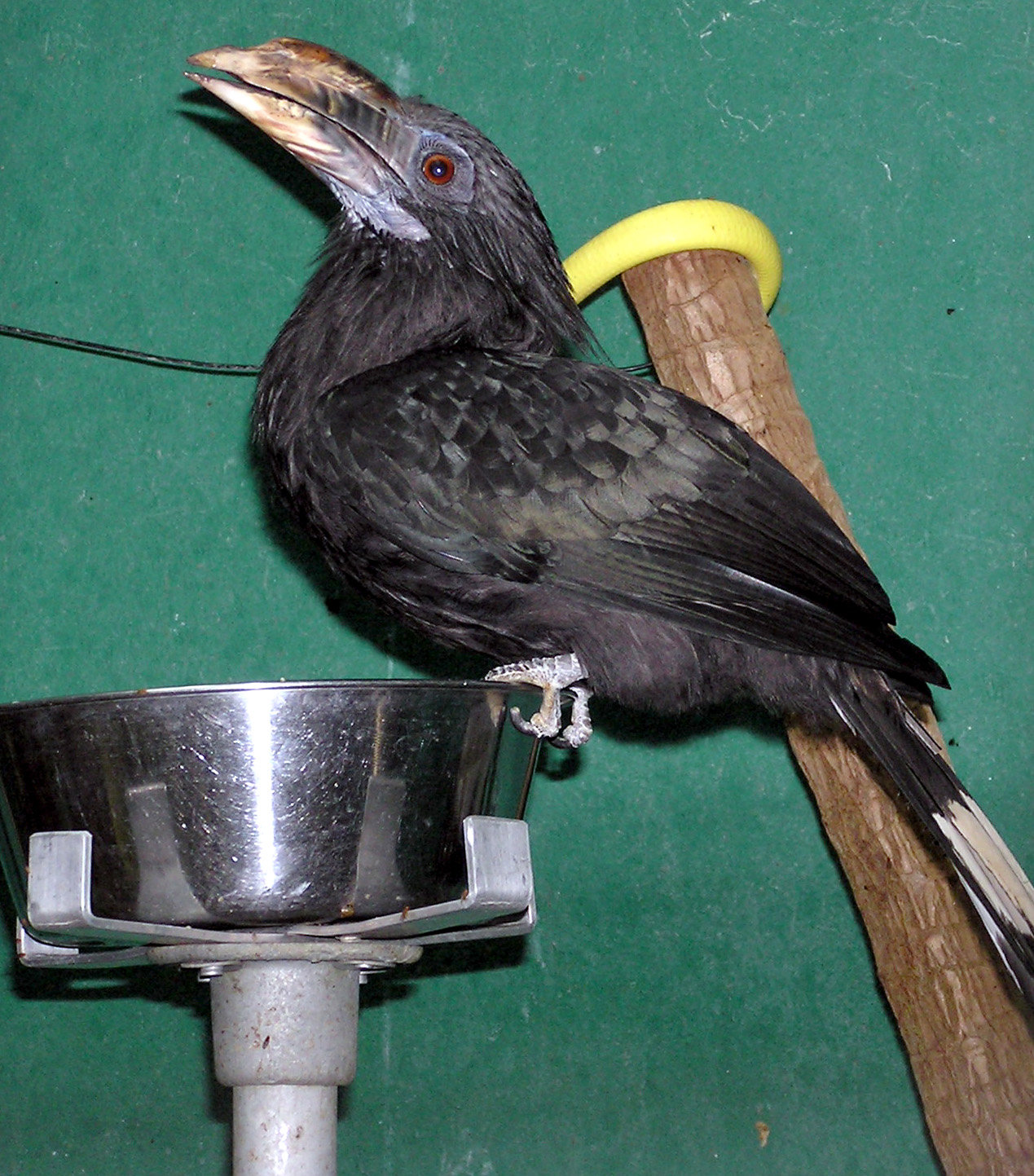 Female Tarictic Hornbill (Penelopides panini) at Bristol Zoo, Bristol, England. Photographed by Adrian Pingstone in September 2005 and released to the public domain.